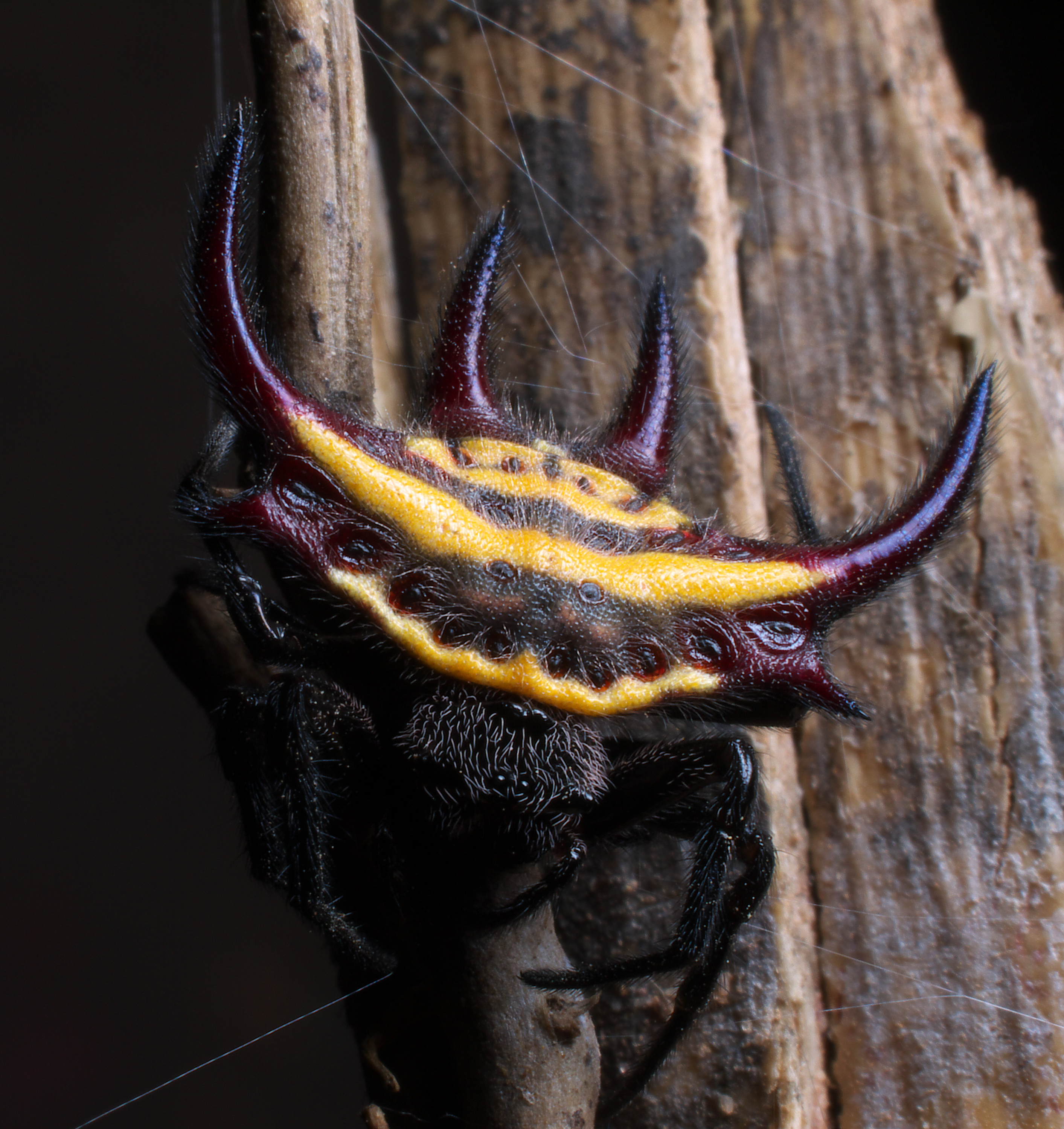 Gasteracantha falcicornis (yellow spiked orb weaver spider)